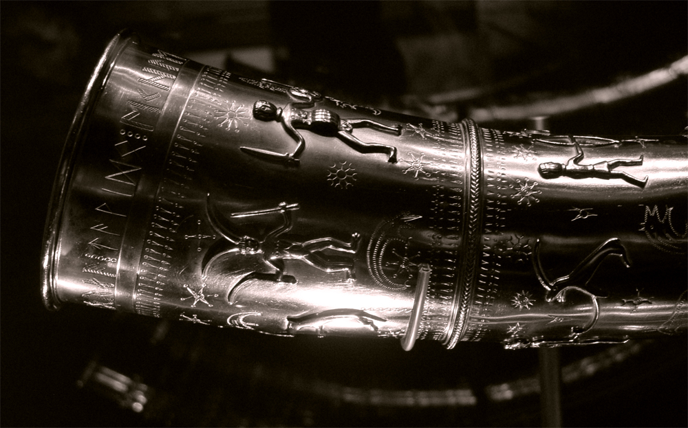 Detail of the runic inscription found on one of the copies of the golden horns of Gallehus housed at the Moesgaard Museum.